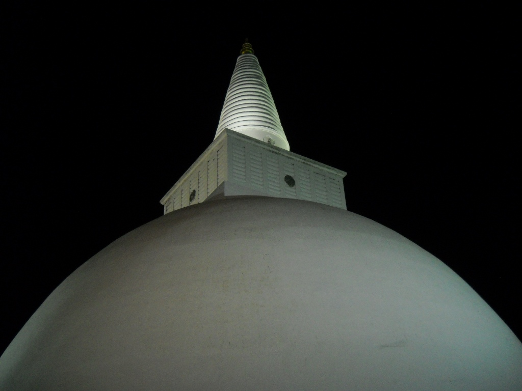 Mirisawetiya is one of the most ancient Dagabas in Sri Lanka. It was built by King Dutu Gemunu who reigned from 161 BC to 137 BC.